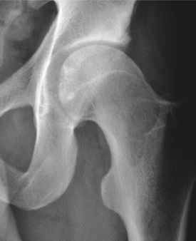 For context, see: Hip pain